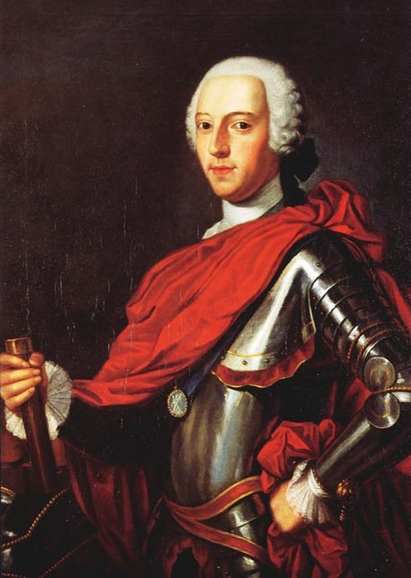 Portrait of Charles Edward Stuart (1720-1788), the Young Pretender to the Thrones of Great Britain, Ireland and France.